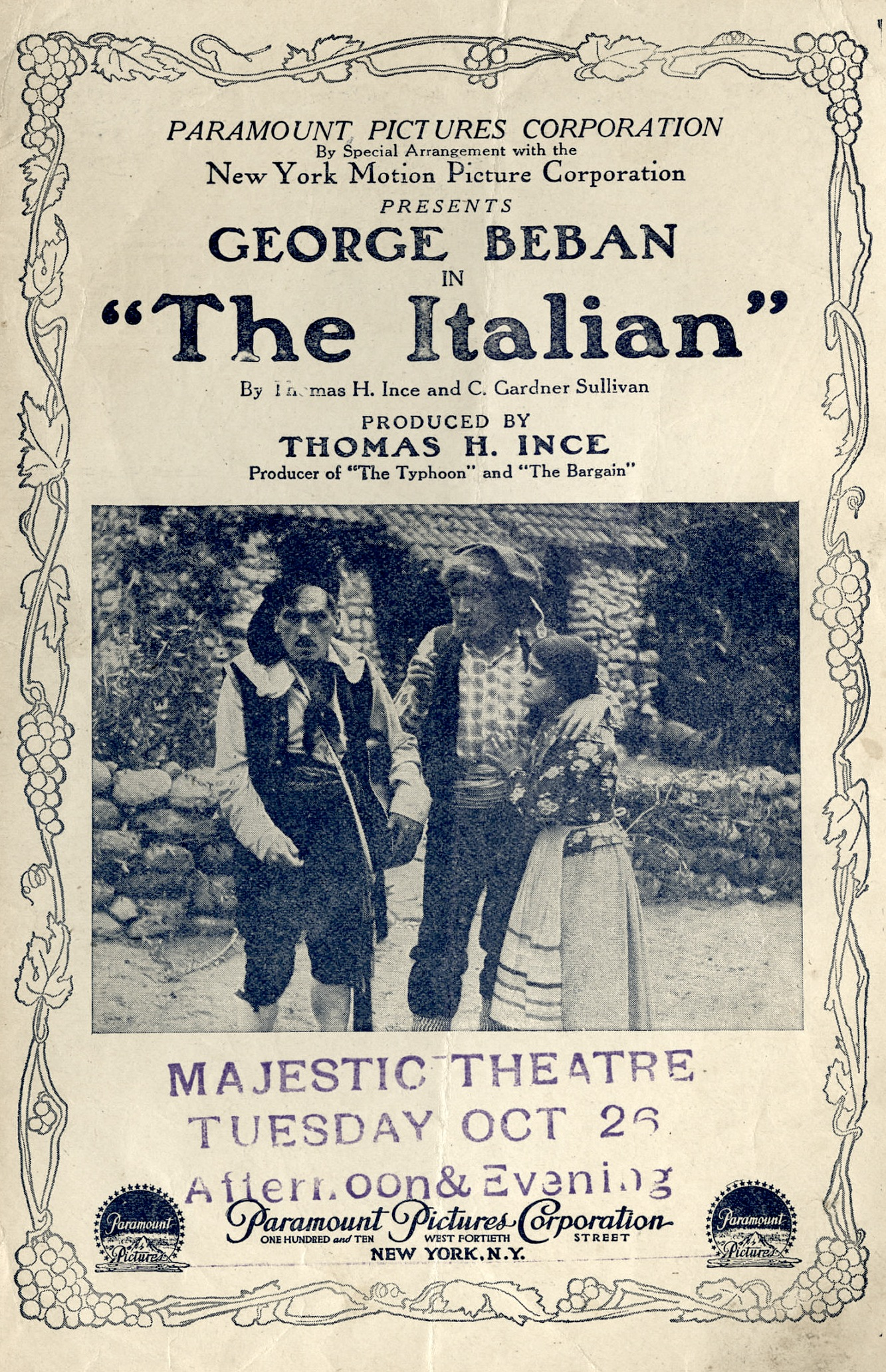 The Italian is a 1915 American silent film feature. This is the front page of a contemporary pamphlet about the the movie.